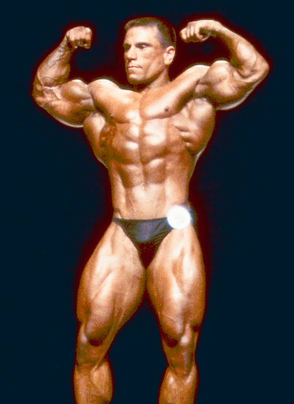 Photo of Kevin O'Toole in classic stance.